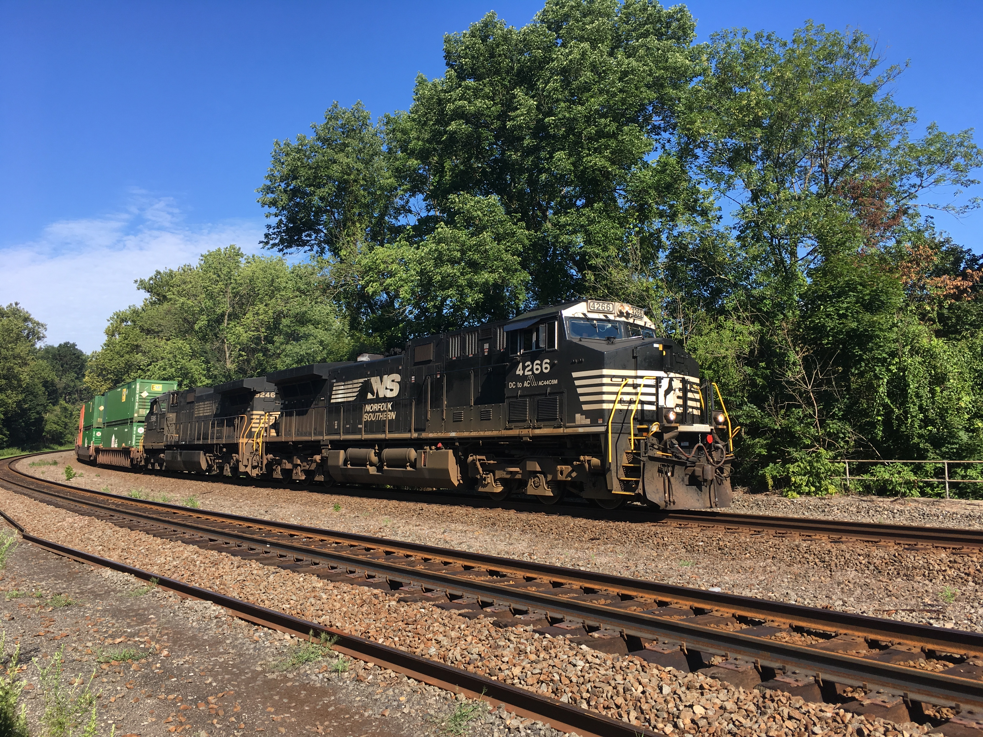 Norfolk Southern Railway GE AC44C6M 4266 leads an intermodal freight eastbound on the Harrisburg Line through Valley Forge, Pennsylvania.